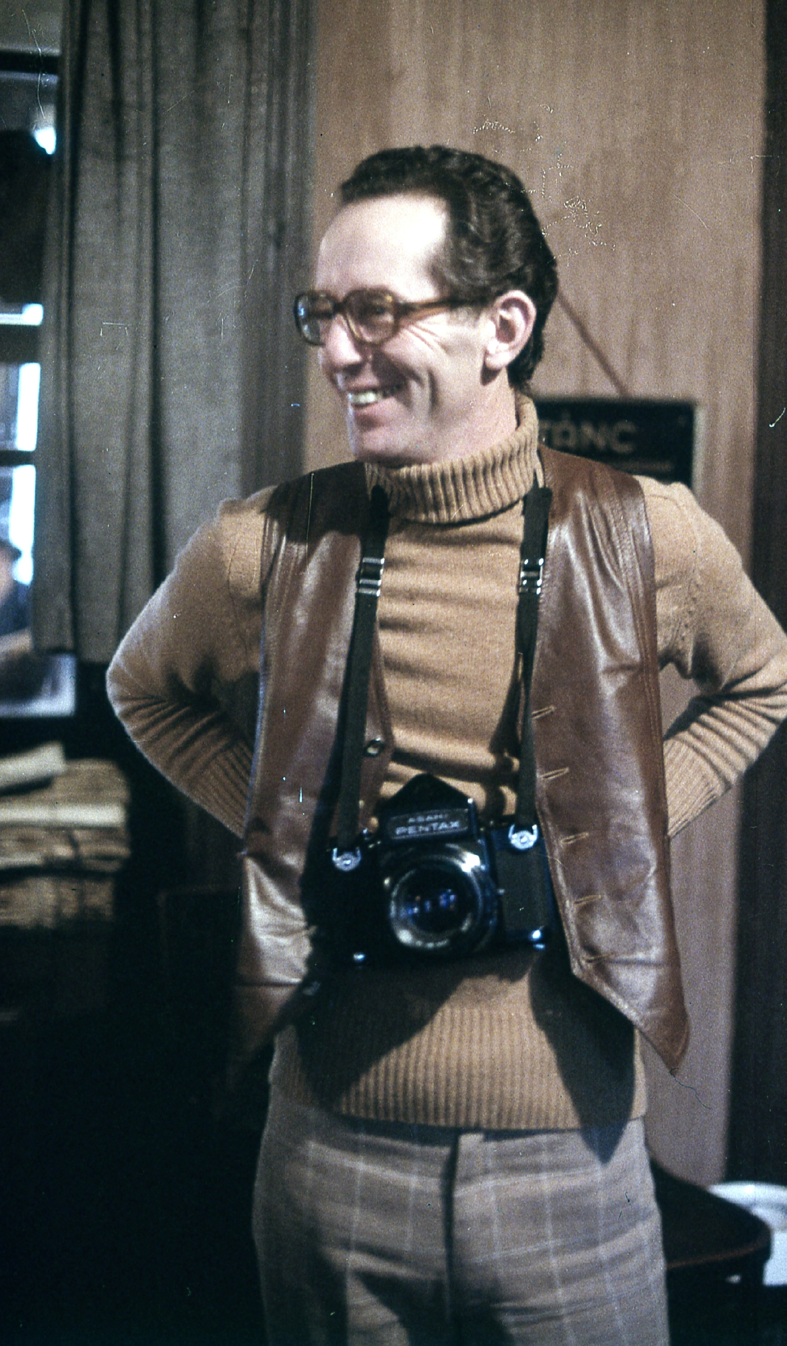 Location: Hungary Tags: camera, colorful, Pentax-brand